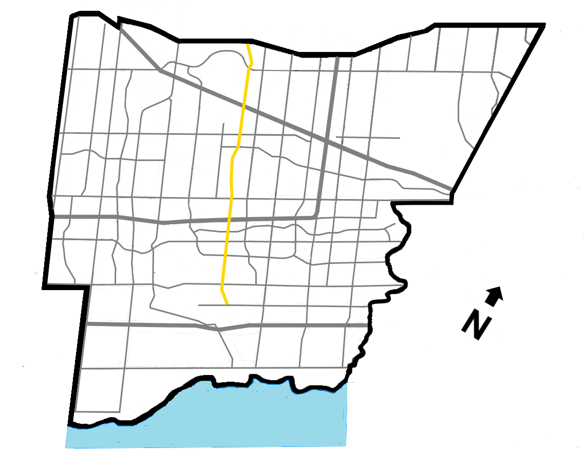 Mavis Rd. within Mississauga